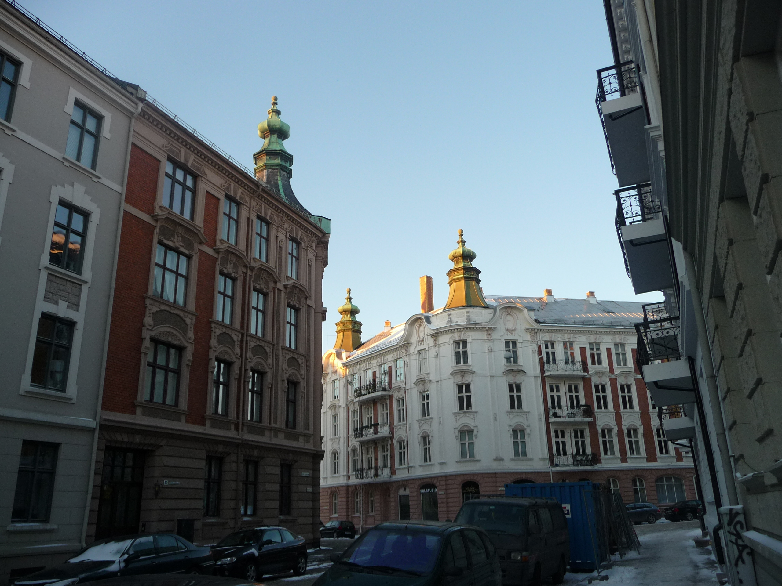 Corner between Solheimgata, Noraaks Gate og Gimleveien.